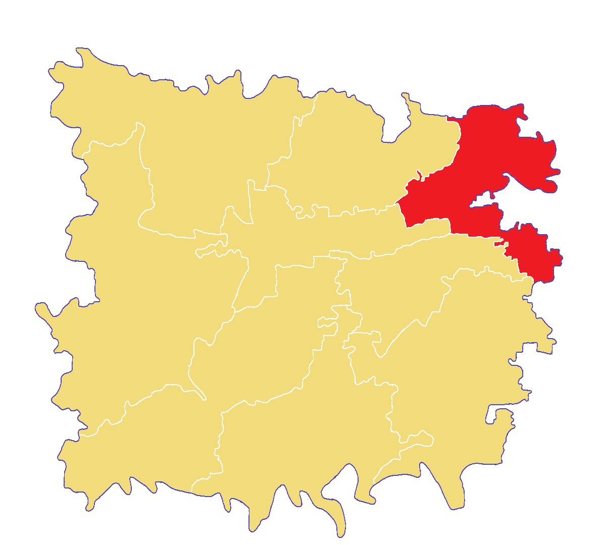 Location of Mirpur Union in Jagannathpur Upazila